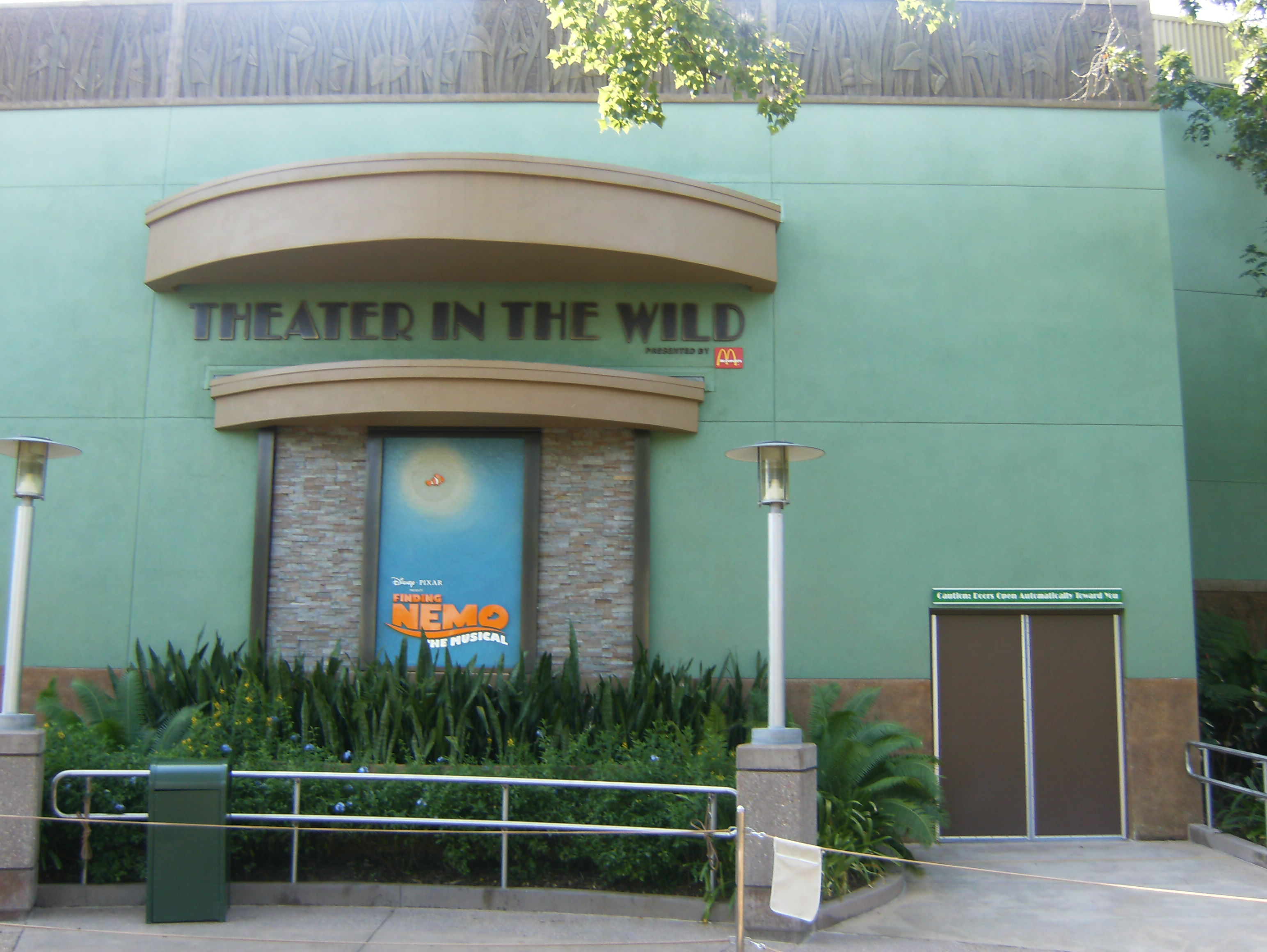 The entrance to the Theater in the Wild in Disney's Animal Kingdom, Florida. The theater is home to Finding Nemo - The Musical.